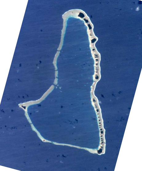 NASA Astronaut Image of Ailuk Atoll (Ratak Chain, Marshall Islands) in the Pacific Ocean